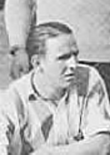 Athletic Club de Bilbao, 1930-31 Spanish League Champions. Line up: Muguerza, Chirri II, Urquizu, Lafuente, Blasco, Ispizúa, Uribe, Unamuno, Castellanos, Bata, R. Echevarría & Gorostiza